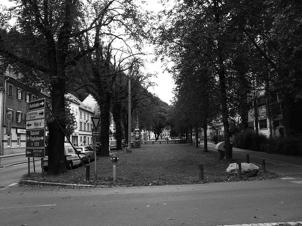 The brook "Mühlgang", filled up in the 1970ies, came along the Körisistraße (view in flow direction south, left in the picture its car lanes, right the cycle and walkers path. In the foreground Wartingergasse; in the background Wickenburggasse leading to the bridge "Keplerbrücke" in Graz.